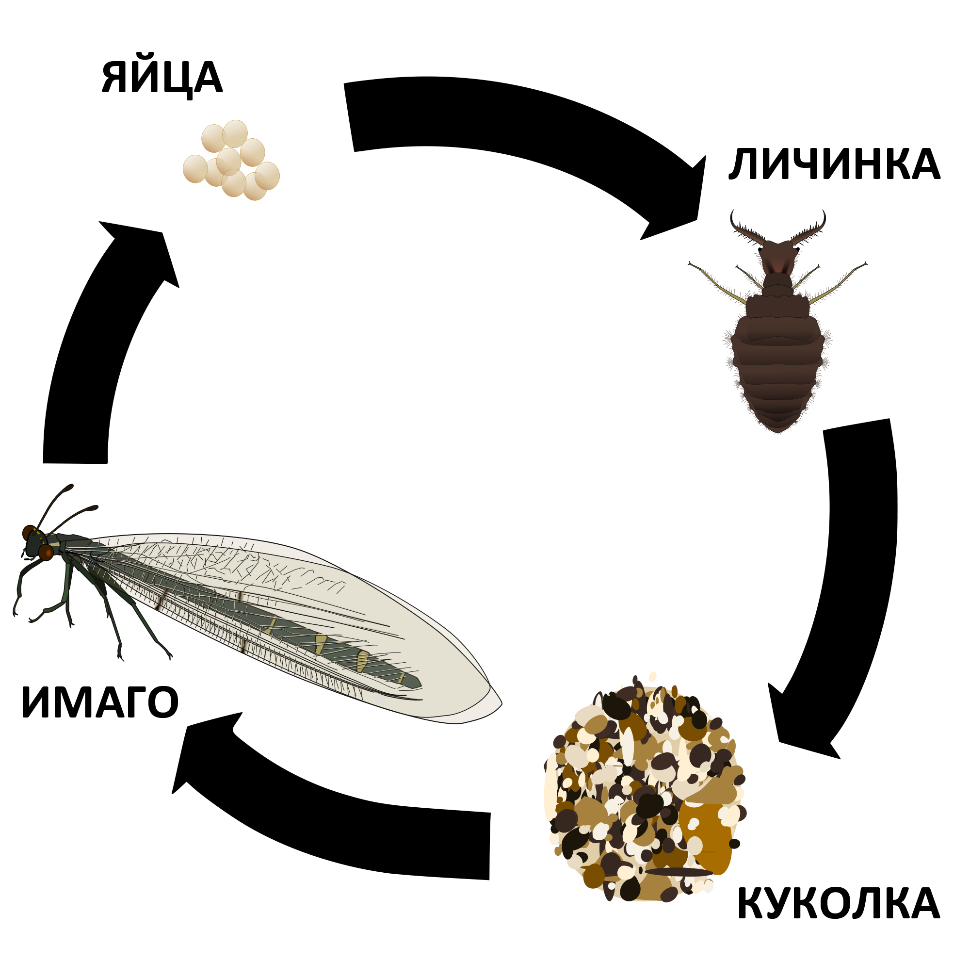 Antlion life cycle {